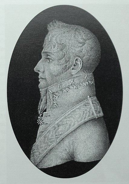 Alexey Khitrovo - Ministr of stats kontrol of Russia